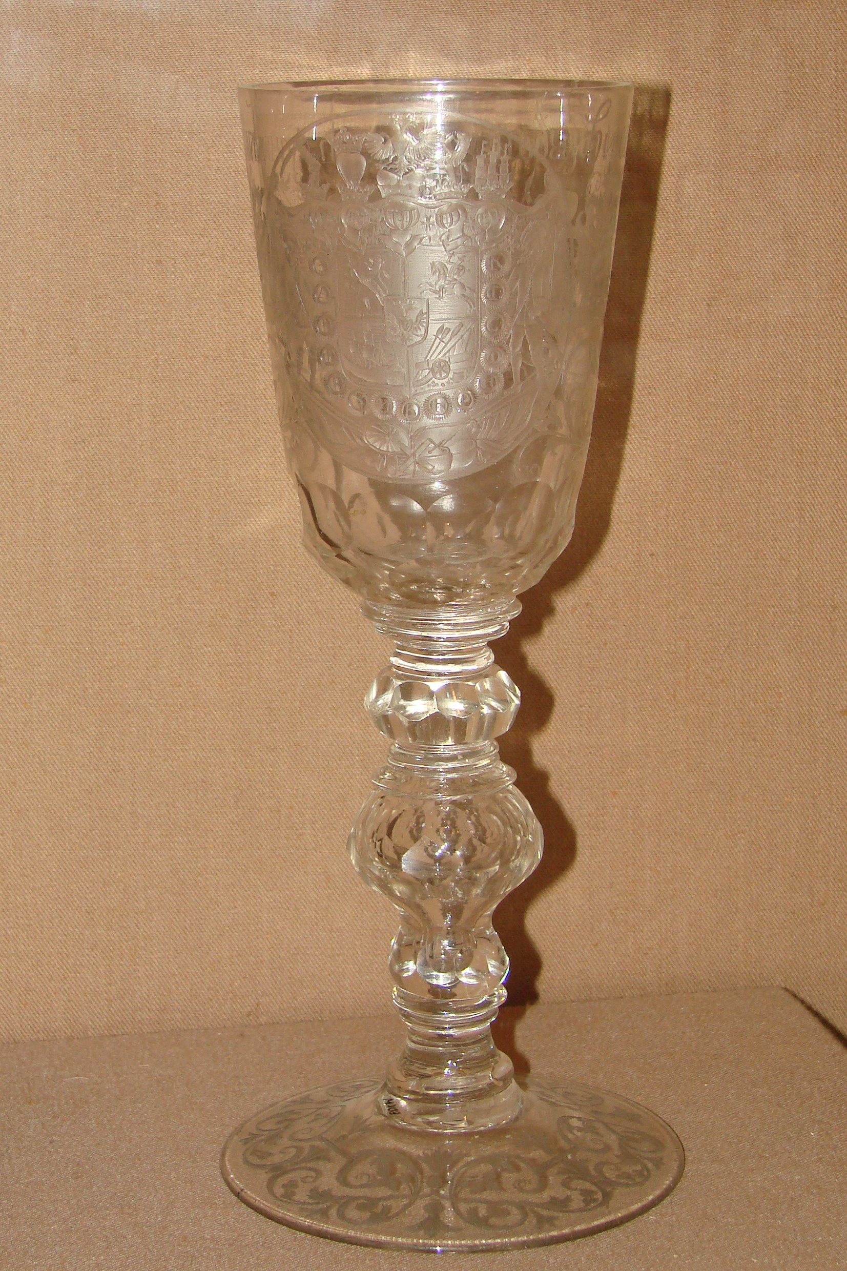 A.D. Menshikov`s Cup. Glass. Engraving. 1-st quarter of the XVIII century